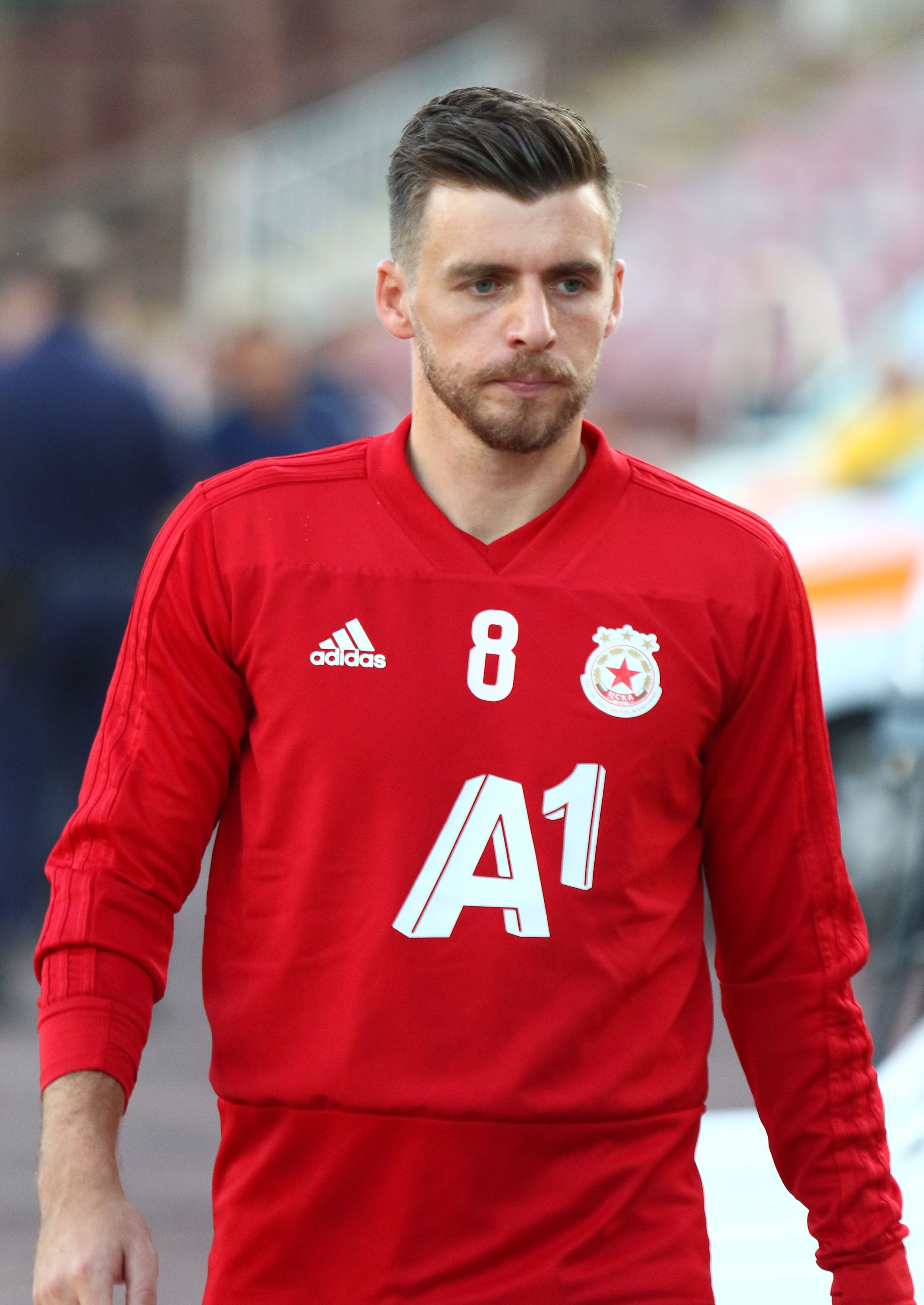 Graham Carey (born 20 May 1989) is an Irish professional footballer who plays for Bulgarian First League club CSKA Sofia. He plays as a left sided attacking midfielder.